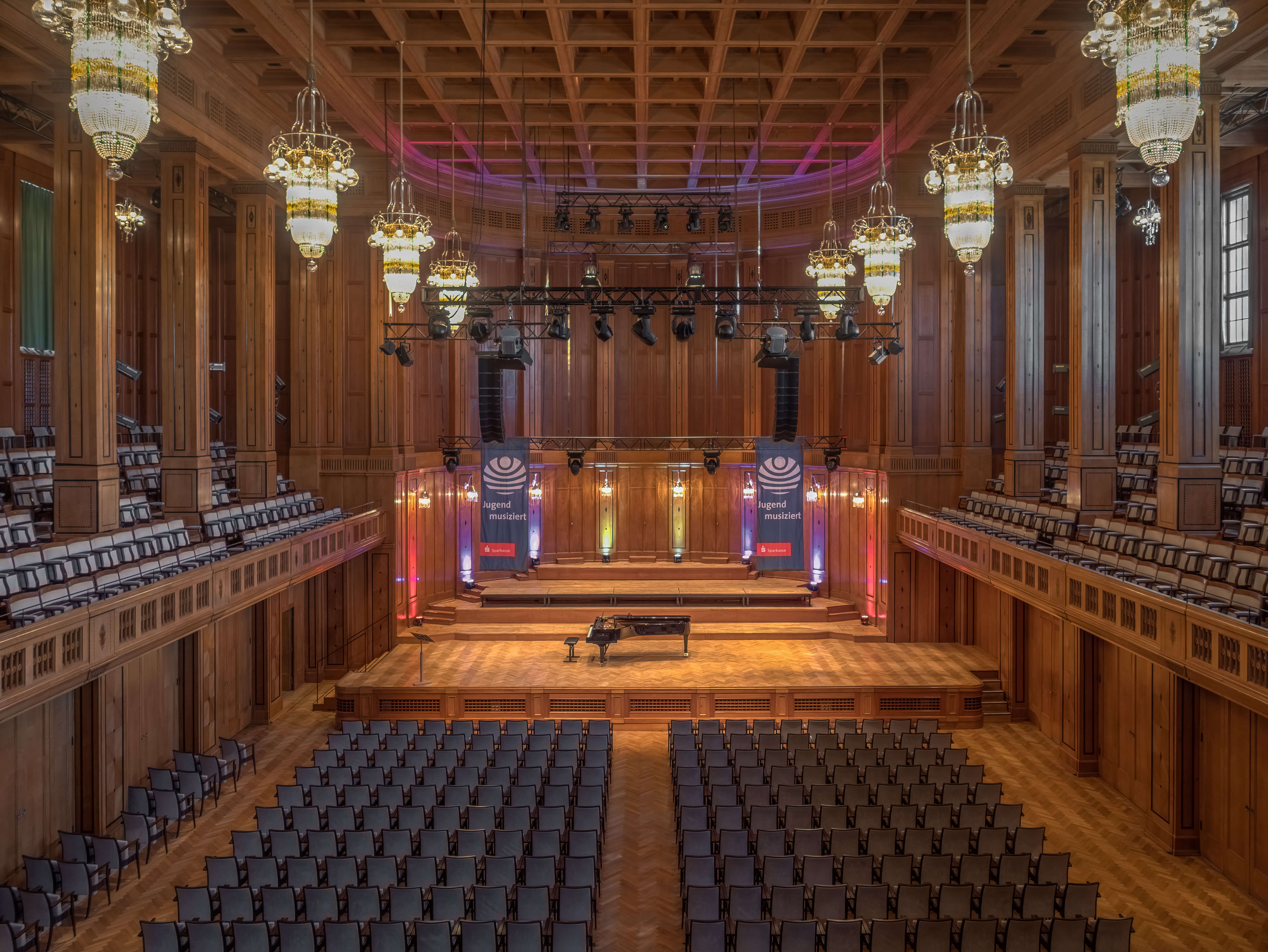 Max Littmann Hall in Regentbau in Bad Kissingen